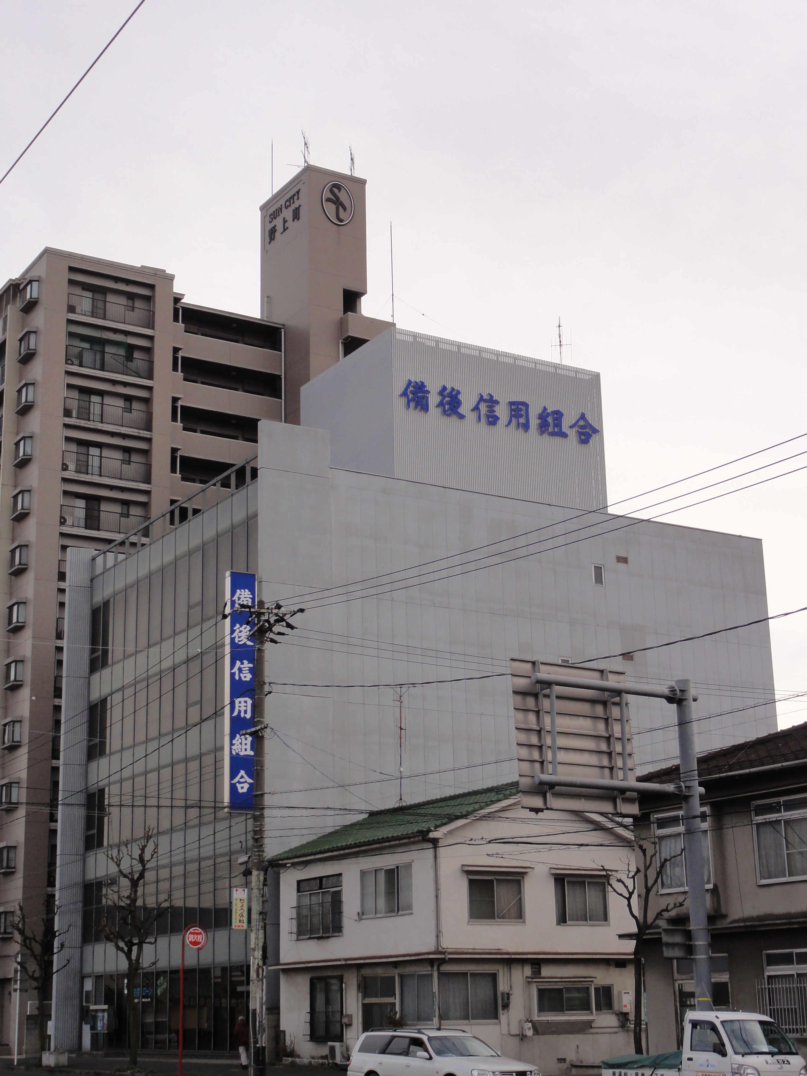 Bingo Credit union(Headquarters),Hiroshima Pref., Japan